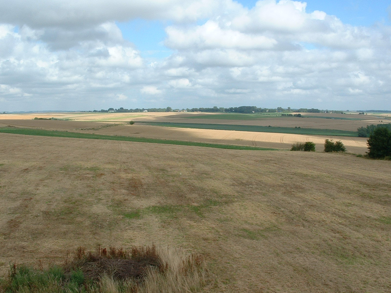 The ridge between Crecy-en-Ponthieu and Wadicourt that was the site of a battle (part of the "100-years War") between the English and French in 1346.